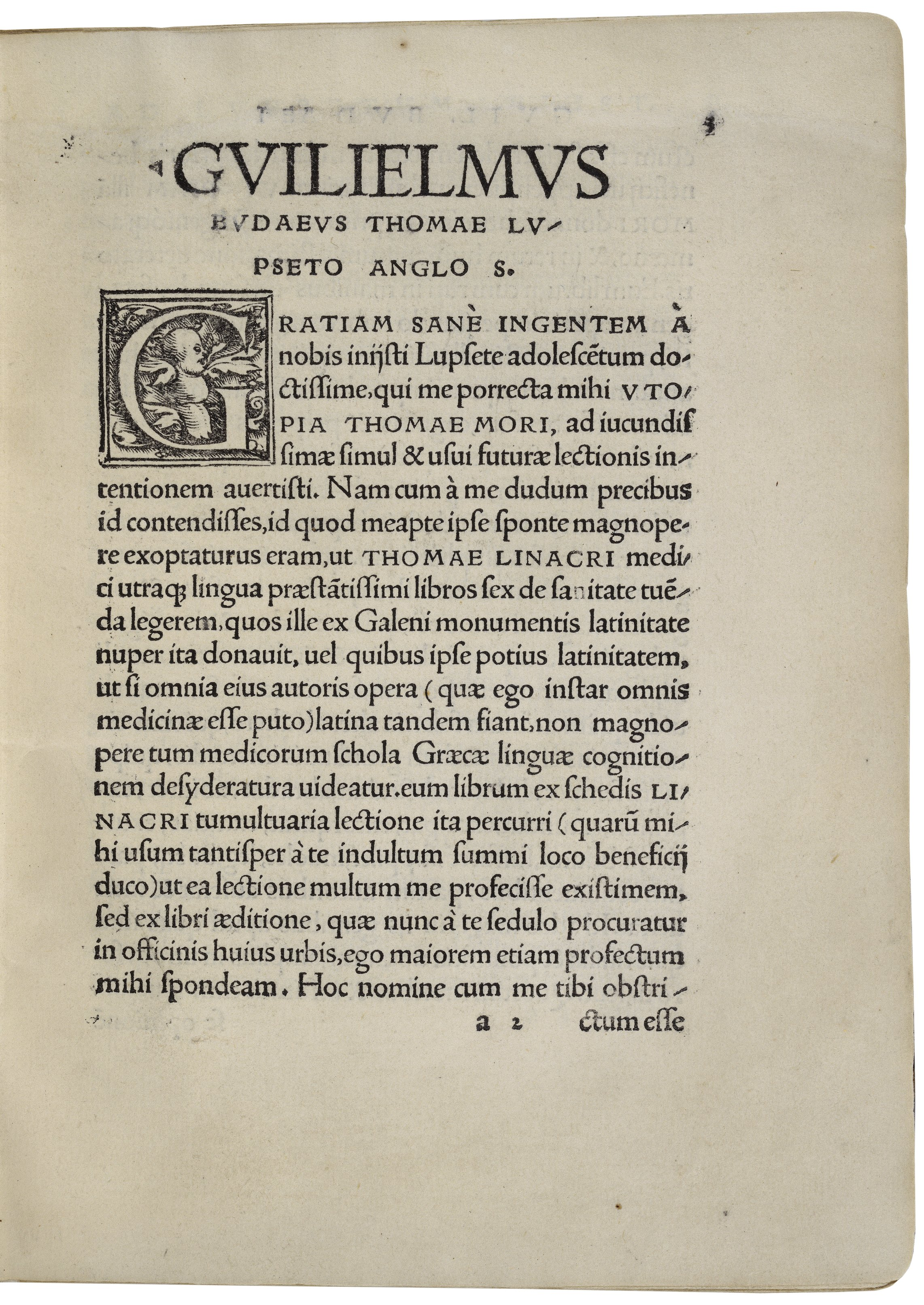 This is the first page of Guillaume Budé's letter in Thomas More's Utopia (printed in november 1518)